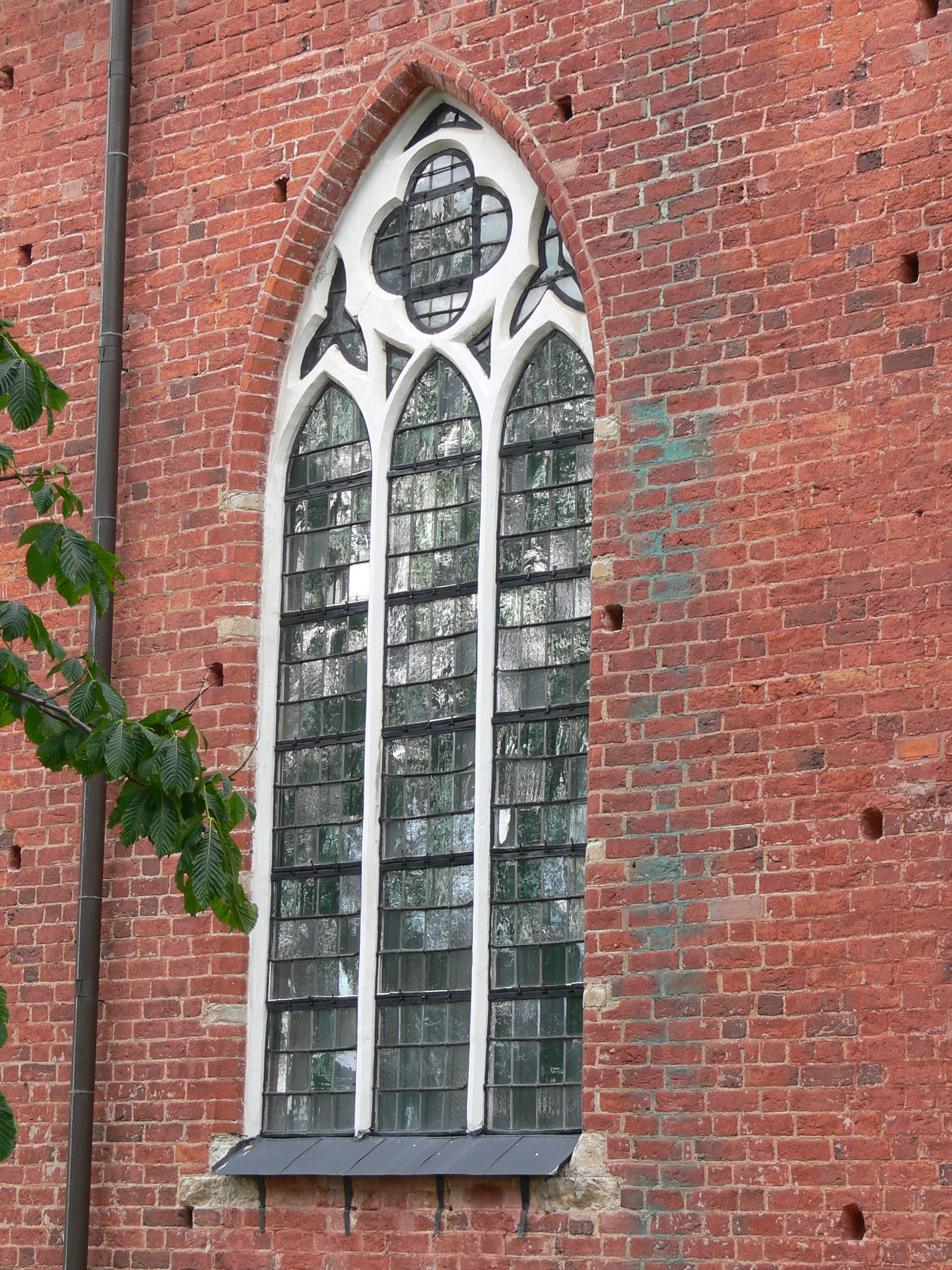 Stängnäs Cathedral ( Sweden ). Gothic tracery window.